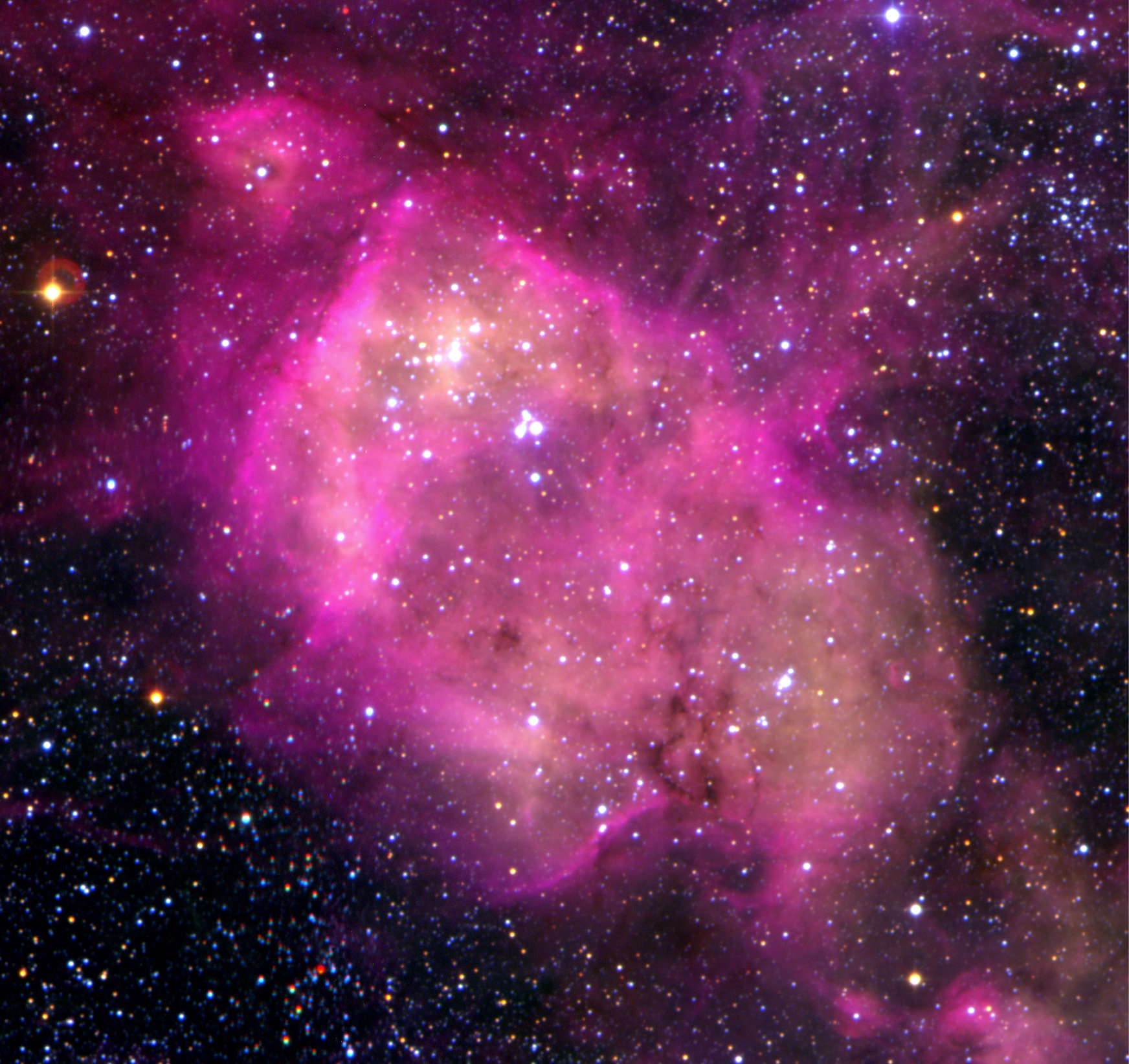 N 164, a bright nebula, the glow of which is caused by hot stars inside it. The heating of the gas by these stars increases the pressure and causes such nebulae to expand, pushing outwards against their surroundings. A careful look at this nebula reveals locations where the expansion is encountering resistance by denser clouds of gas, producing bright, thin rims. The sky field measures 3.6 x 3.5 arcmin. North is up and East is left.